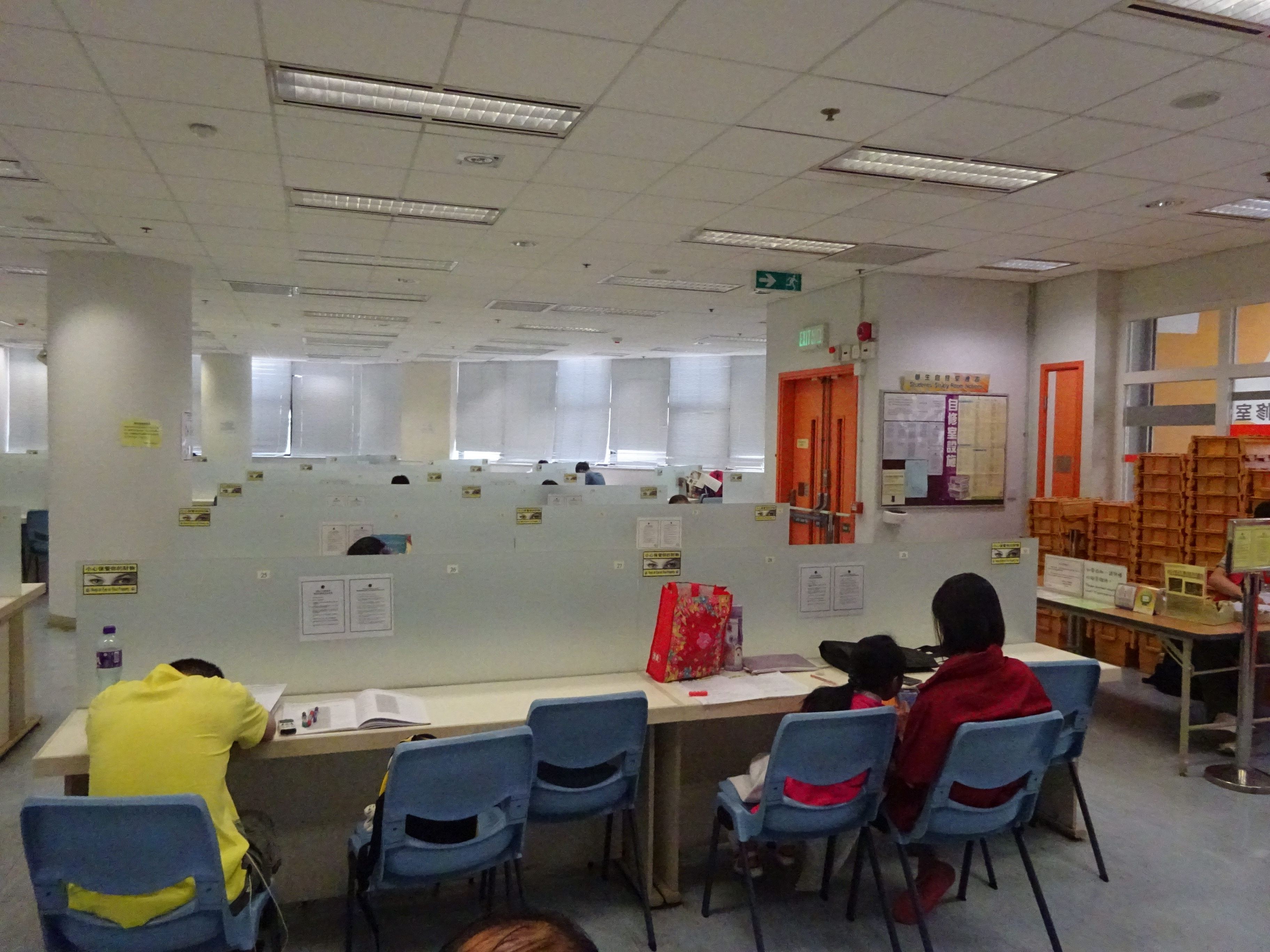 Aberdeen Puplic Library Self-study Room in July 2016